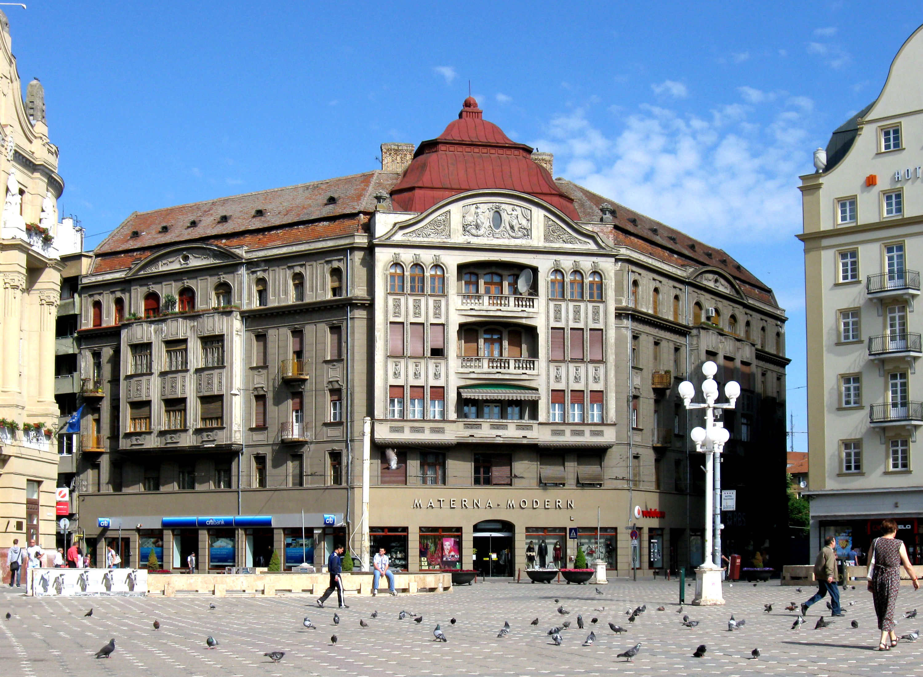 Weiss Palace, Timisoara, Romania. Built 1912-1913, architect Arnold Merbl.